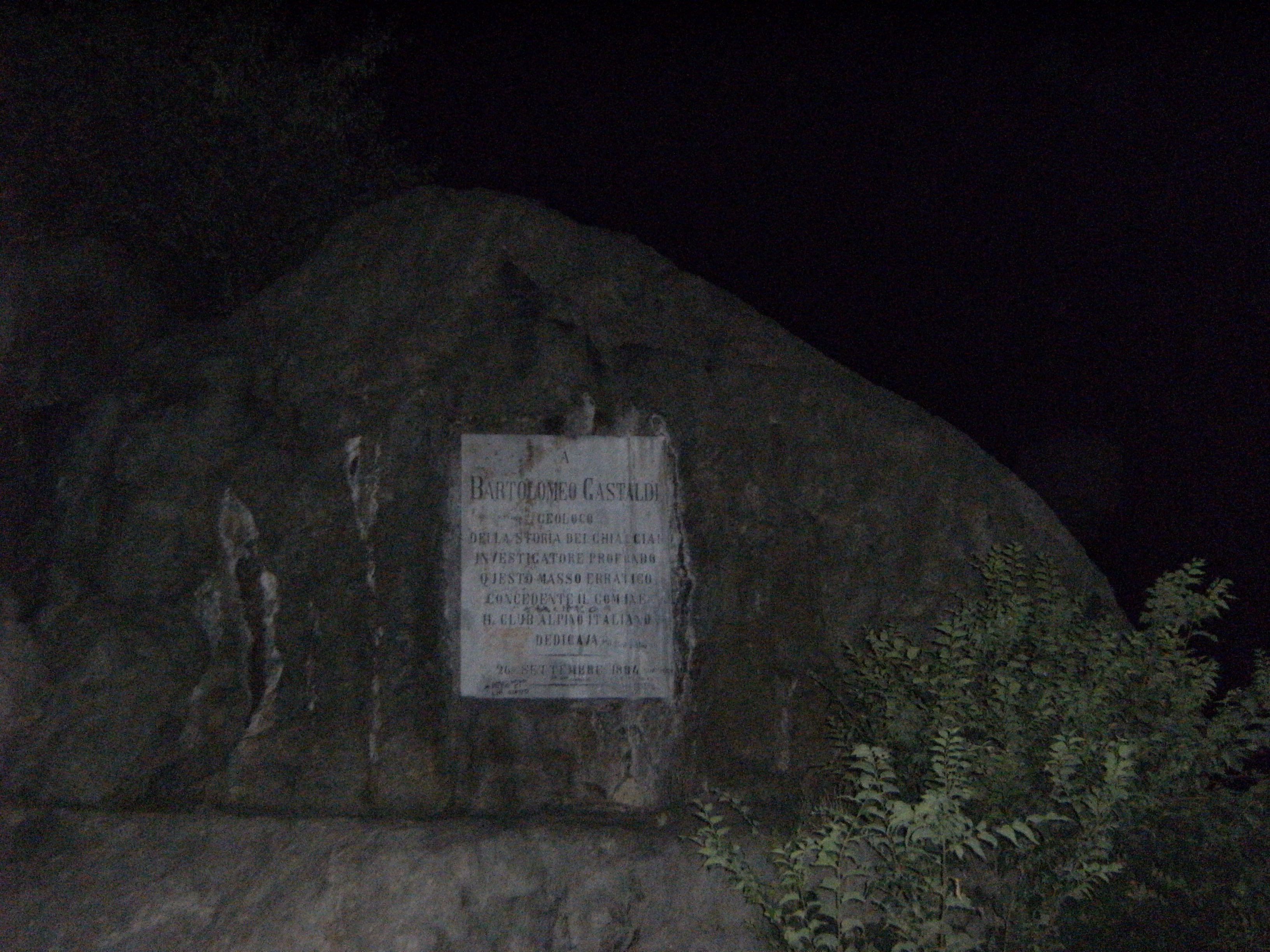 A Image of Pianezza -TO- Italy